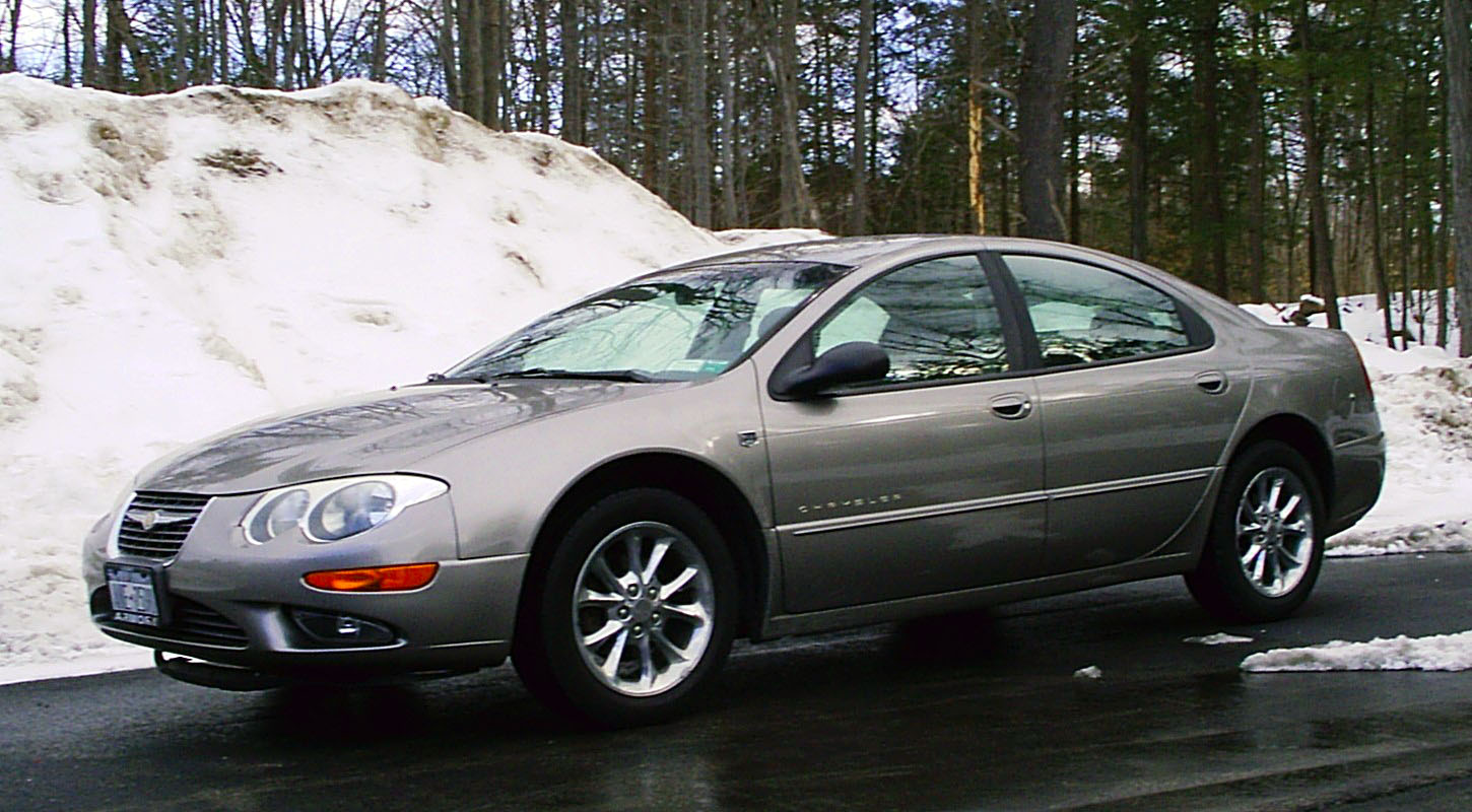 Chrysler 300M, picture taken off US-20 near the interchange with I-88 (Duane Lake), west of Albany, New York.